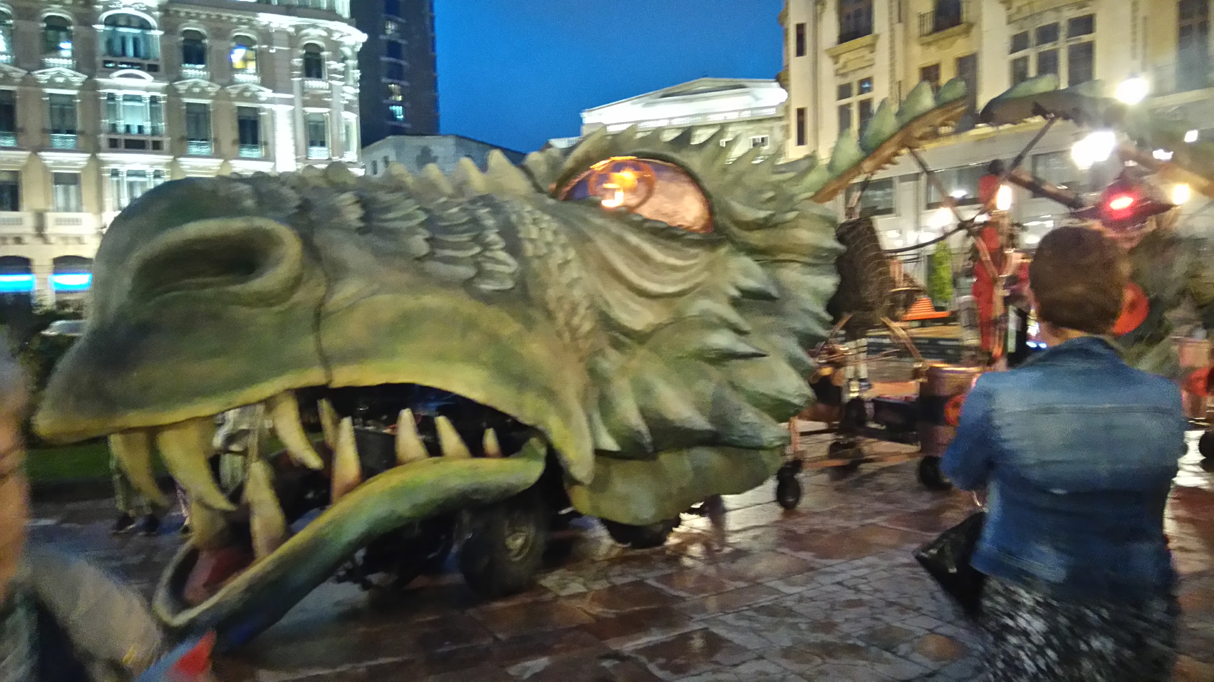 Mechanical dragon in Midsummer in Oviedo (Spain), 2016.